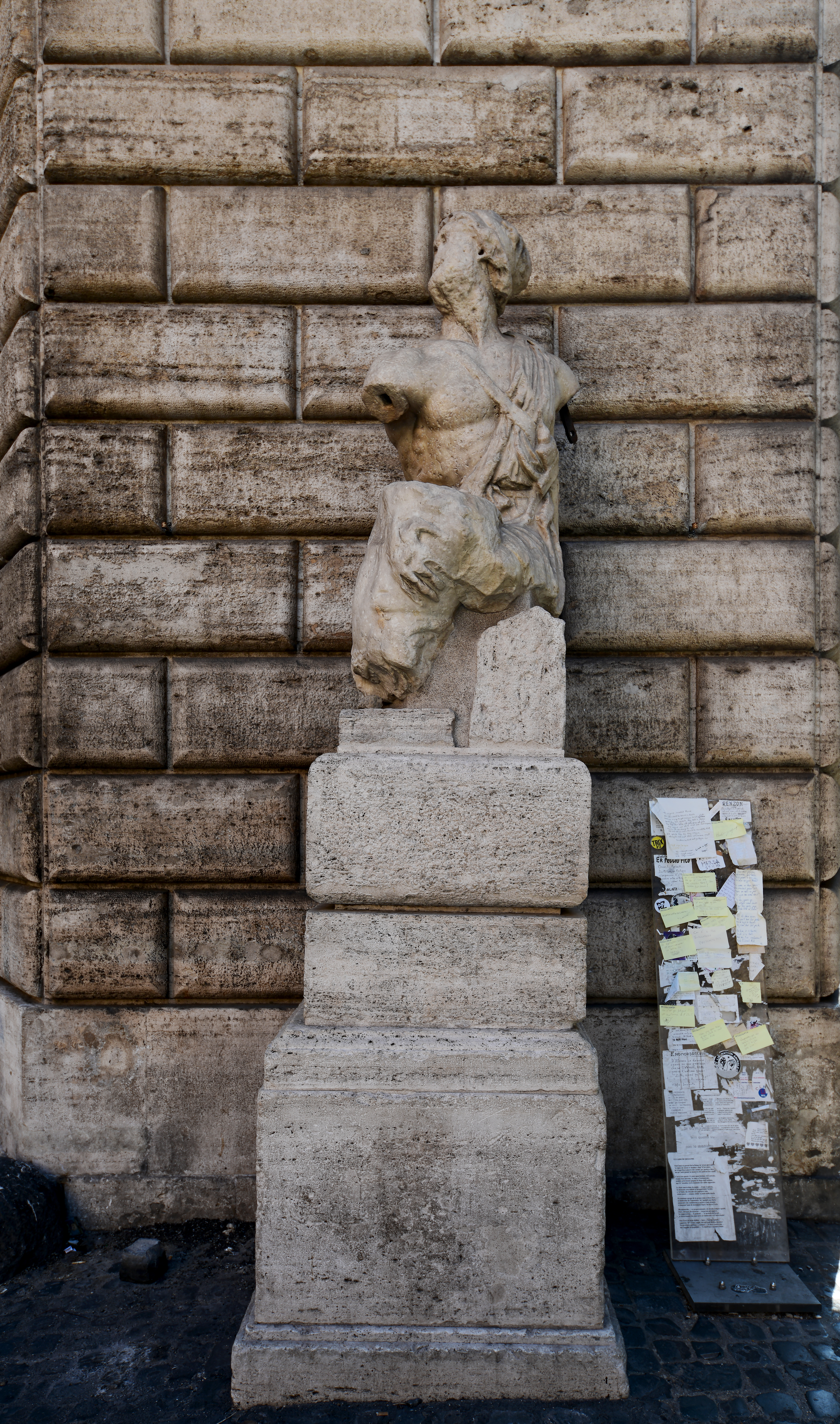 Pasquino 2018